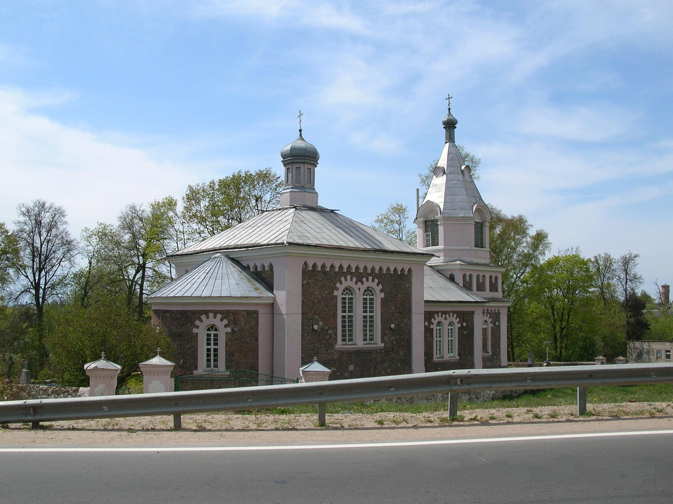 Orthodox church in Brzostowica Mała.